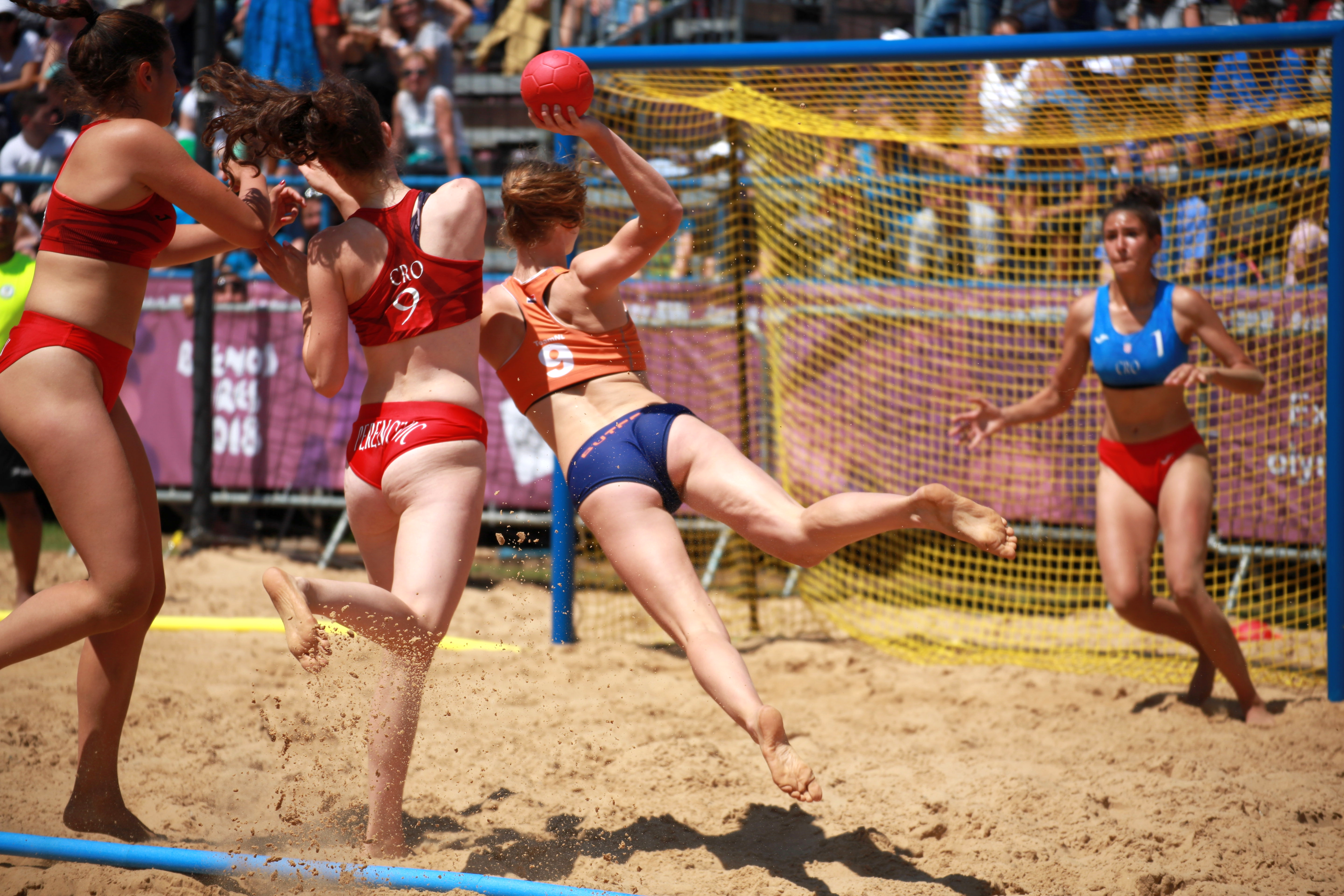 Beach handball at the 2018 Summer Youth Olympics in Buenos Aires at 13 October 2018 – Girls Semifinal – Netherlands-Croatia 0:2